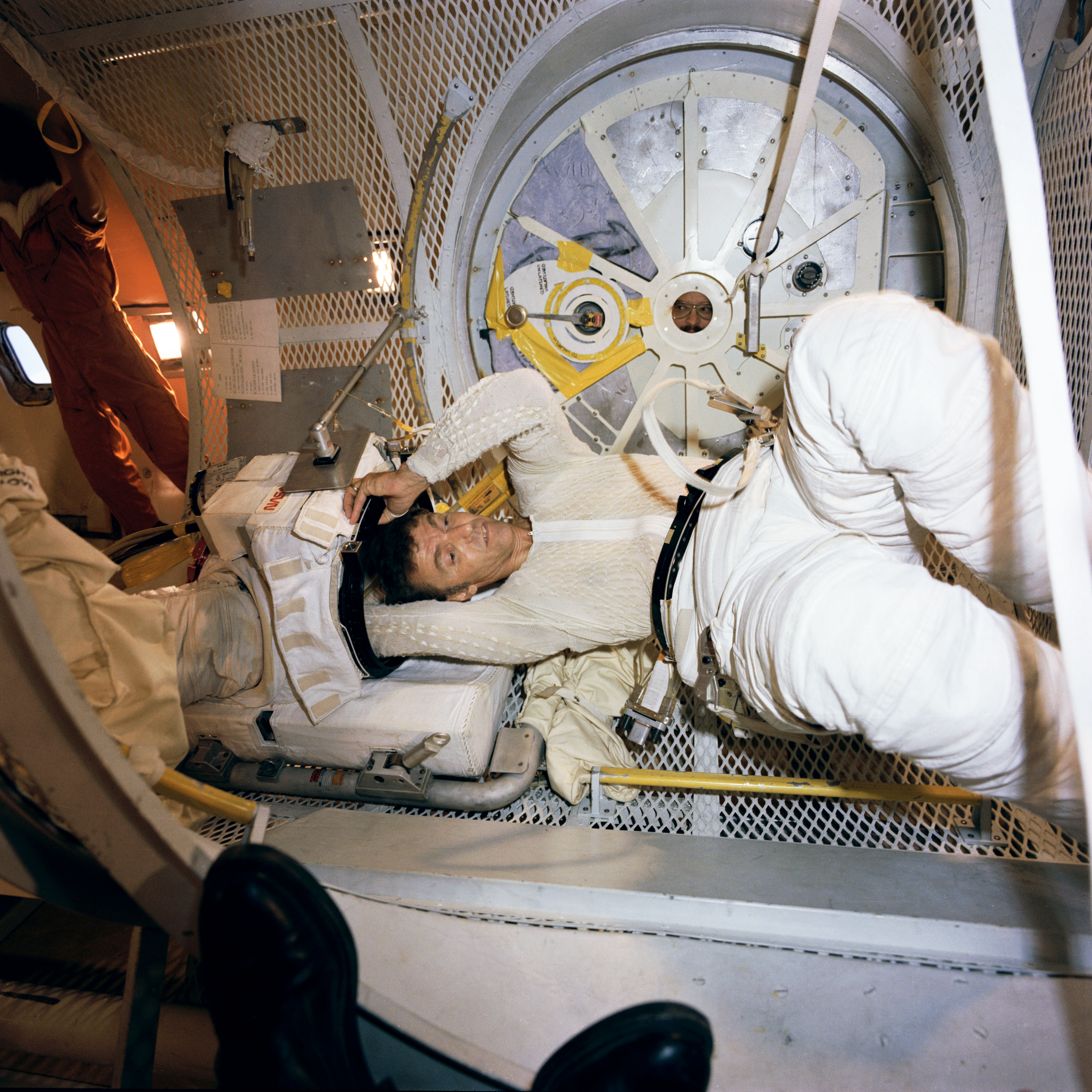 NASA Astronaut Joe Engle, commander of the STS-2 mission, practices doffing and donning his Extravehicular Mobility Unit (EMU) in the weightless environment aboard a KC-135 aircraft. NASA photo S81-34467 in public domain.